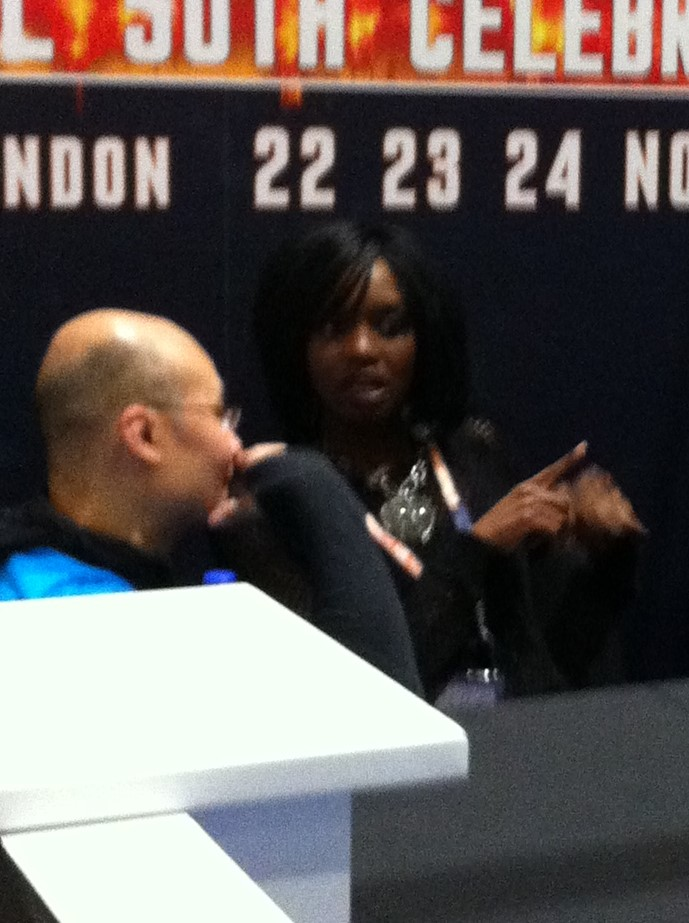 Velile Tshabalala in 2013 at the Doctor Who 50th Anniversary Convention.